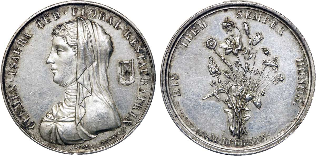 Jeux floraux de Toulouse, 1819.Ces jeux, organisés à Toulouse, mettaient en compétition des poètes et des musiciens sous l'égide de la nymphe Flore. En 1817, l'un des lauréats fut Victor Hugo, alors agé de quinze ans. Ce jeton peut donc être de cette émission, étant sans poinçon.